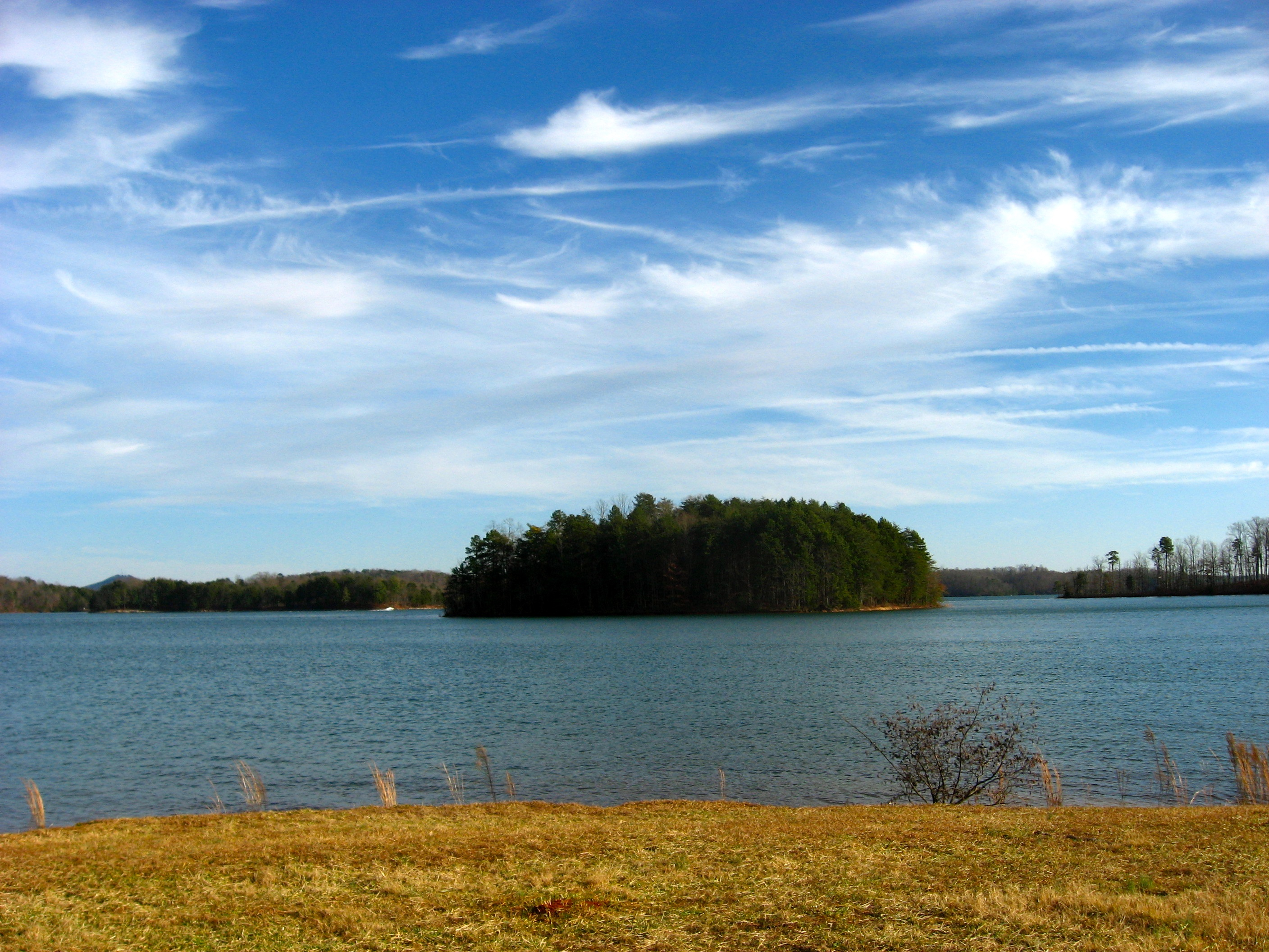 Keowee’s under there